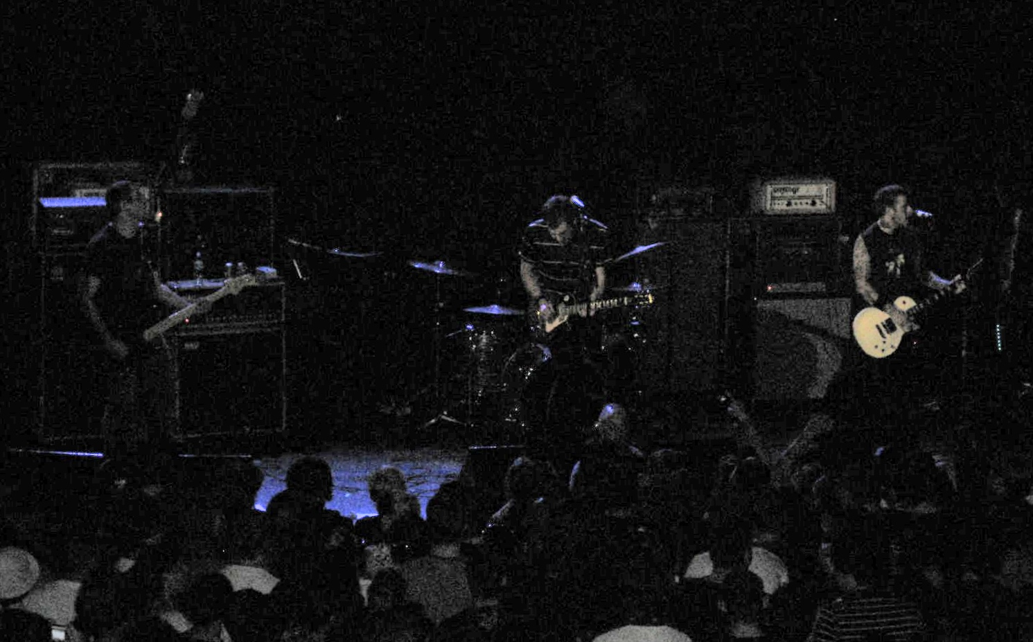 The Fashion, opening for Alkaline Trio in New York City